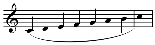 Diatonic scale on C, legato articulation.